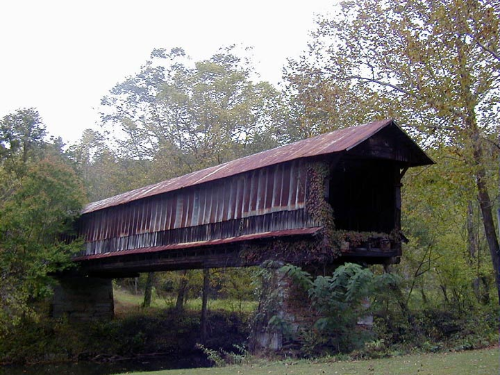 Photo of the Waldo Covered Bridge in Talladega County, Alabama. Picture was taken by M.L. Devall in October 2004.